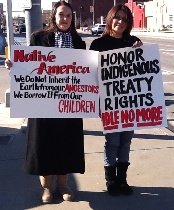 Two Native American protesters at an Idle No More round dance in Oklahoma City, Oklahoma, in solidarity with First Nations in Canada